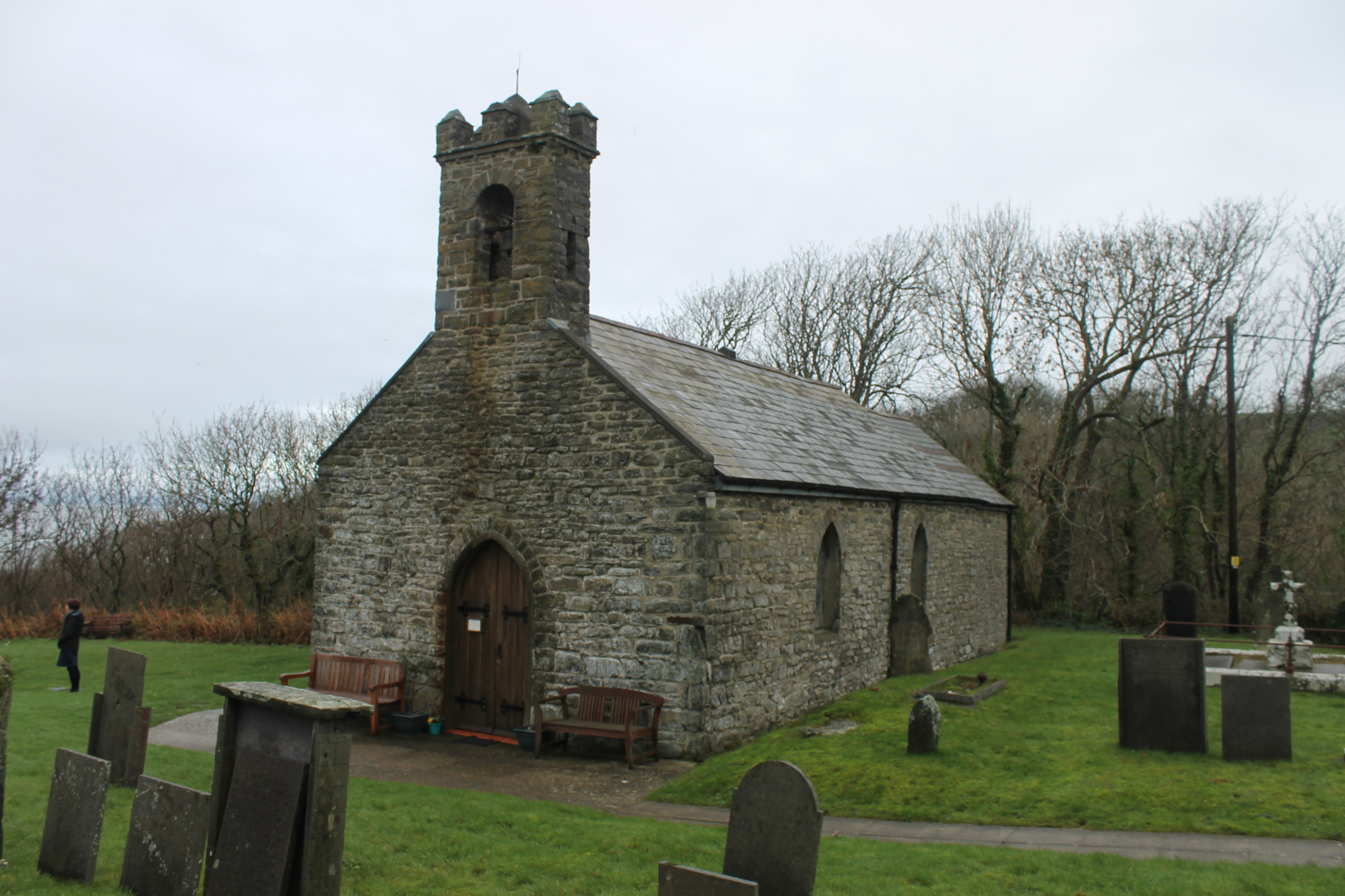 The church of Llanina, near Ceinewydd (New Quay), Ceredigion.